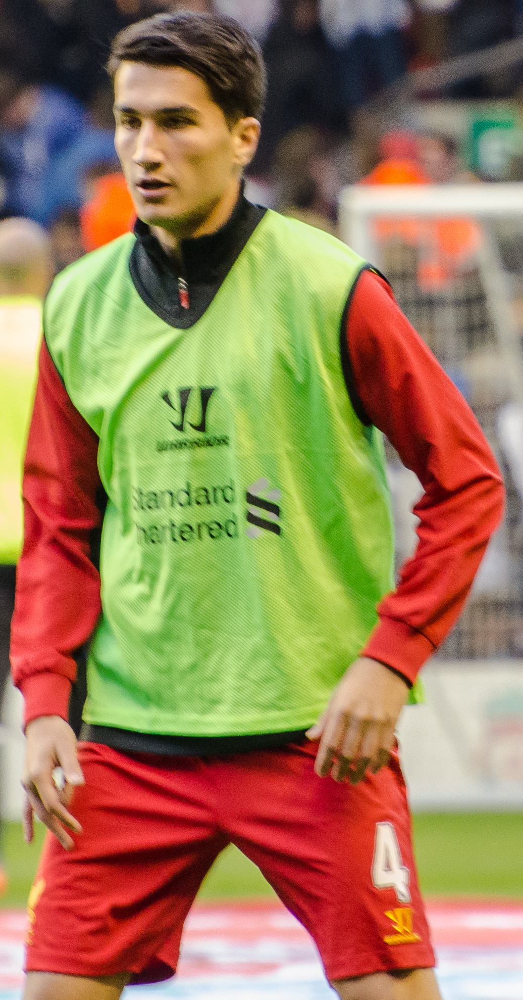 Nuri Sahin warming-up before match between Liverpool FC and Wigan Athletic at Anfield Road on 17 November 2012.